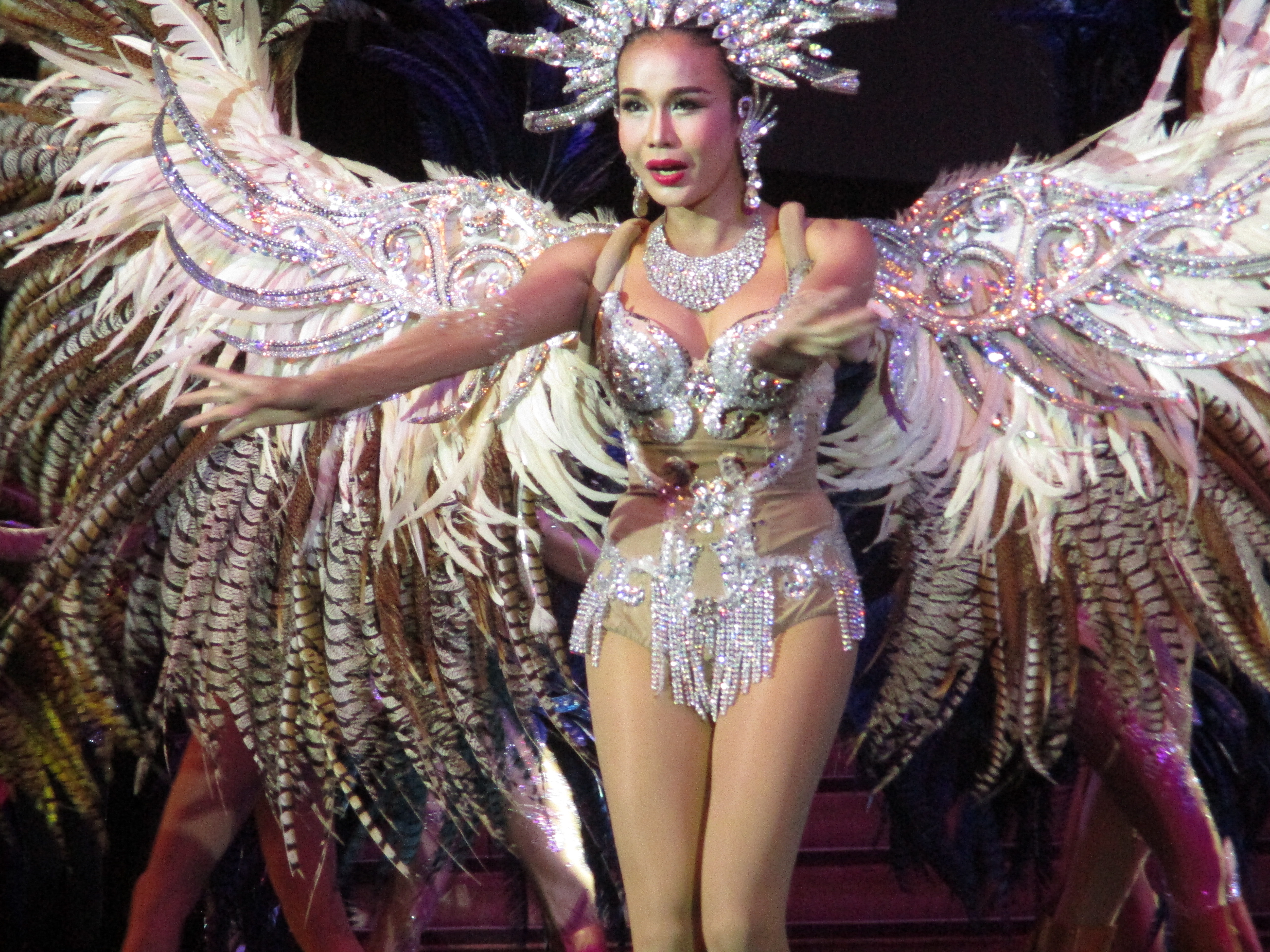 Pattaya Collosseum Cabaret Show.